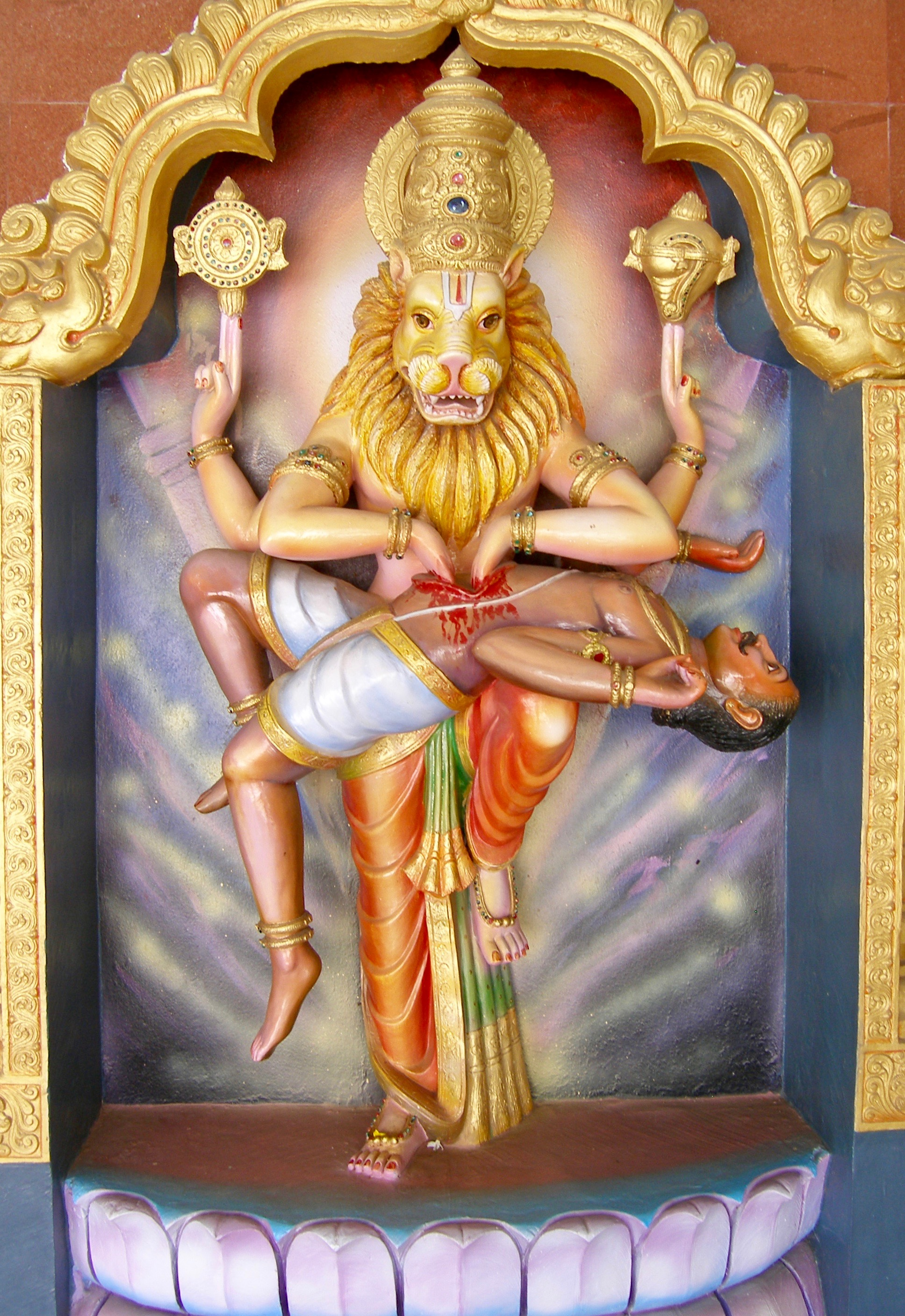 Narasimhavatara of Lord Vishnu at Narayana Tirumala.